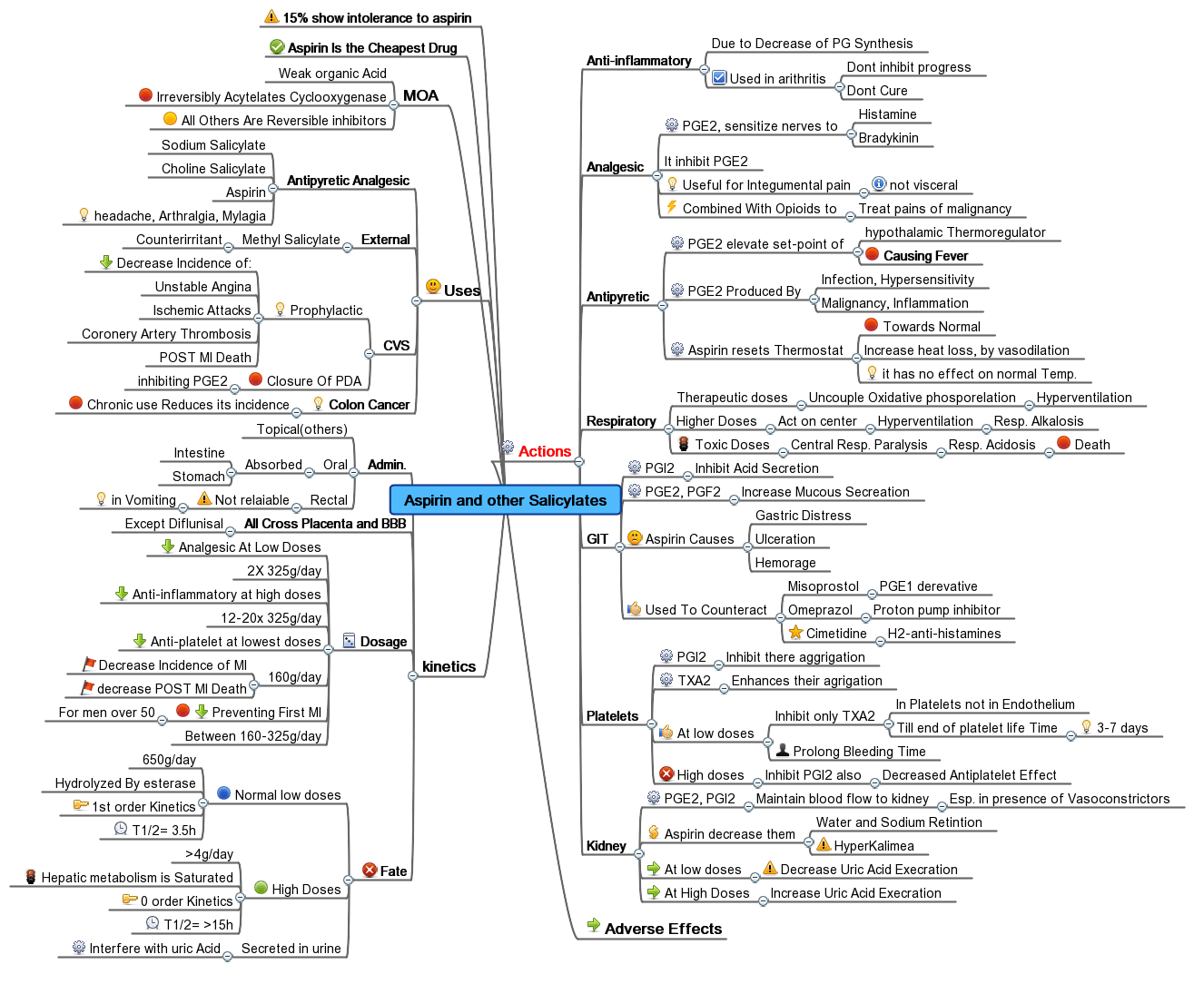 Aspirin_and_other_Salicylates, to request a mind map please see my page on wikipedia Madhero88